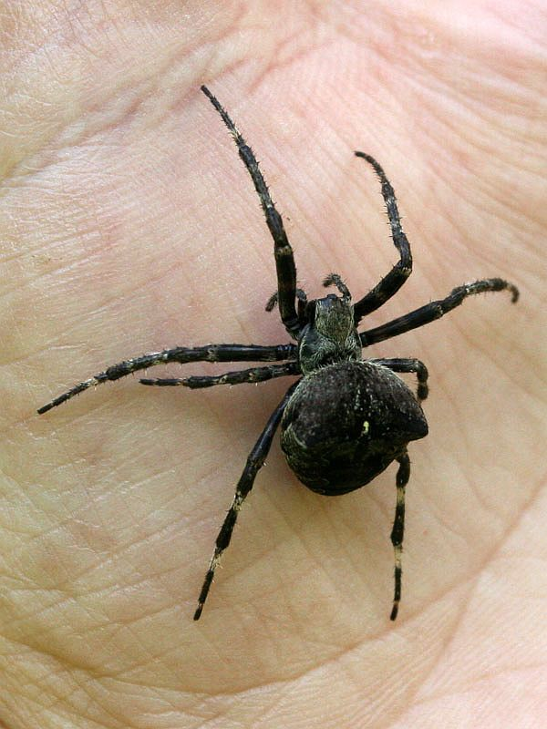 Image shows a spider from species Araneus angulatus.